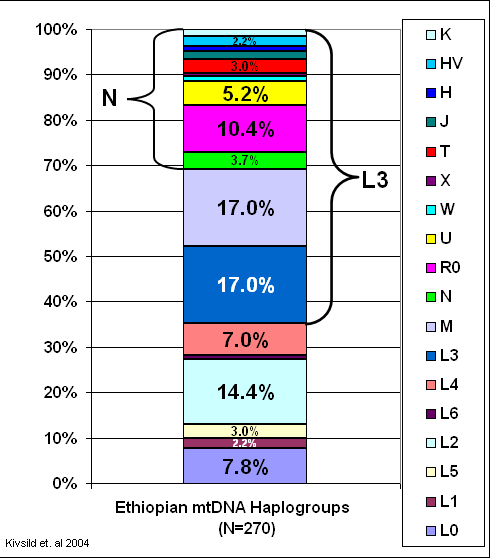 Cumulative Ethiopian mtDNA, with Data gathered from Kivsild et. al 2004